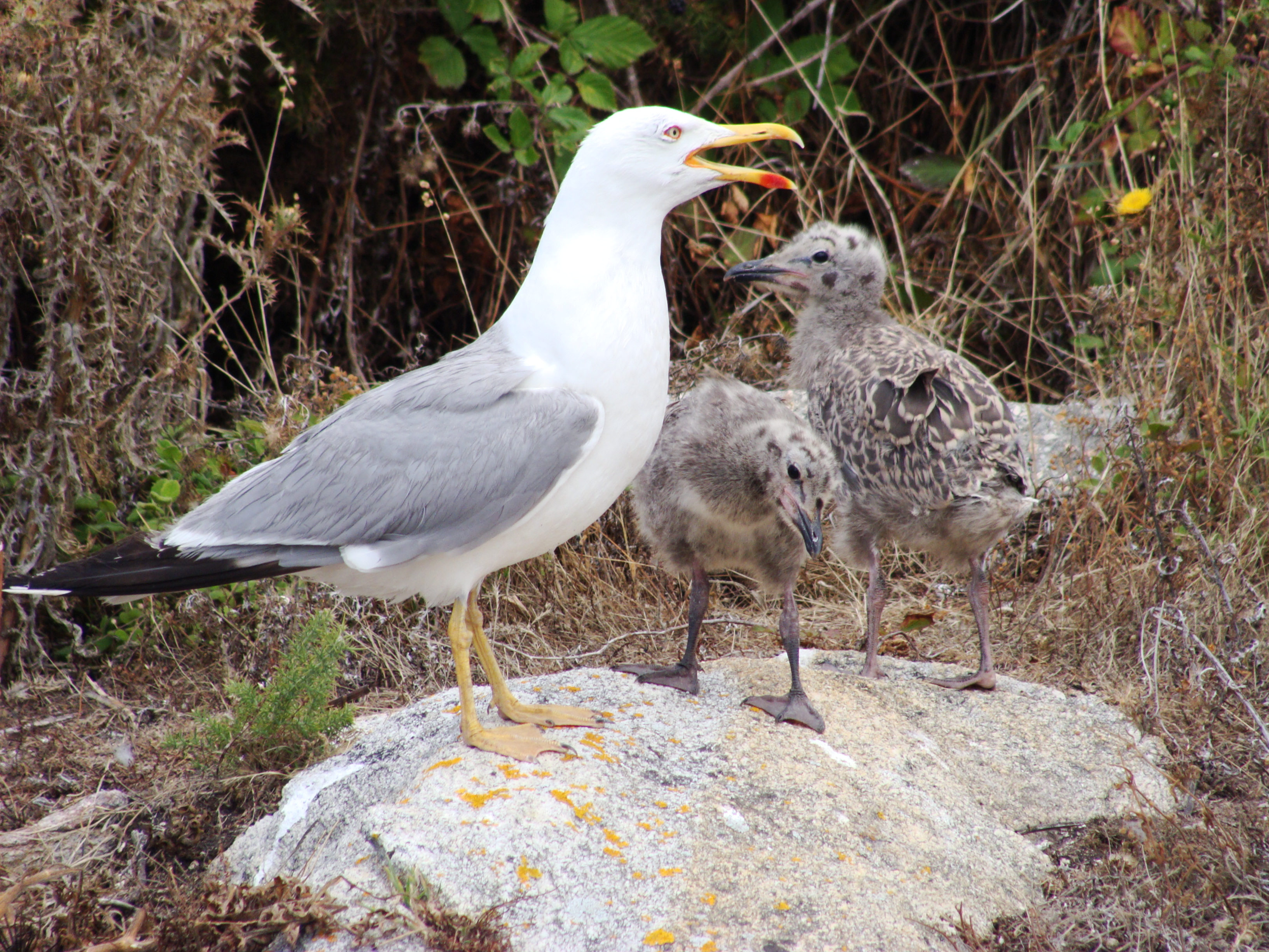 Larus michahellis (Yellow-legged Gull) in Cíes Islands, Pontevedra, Galicia, Spain.